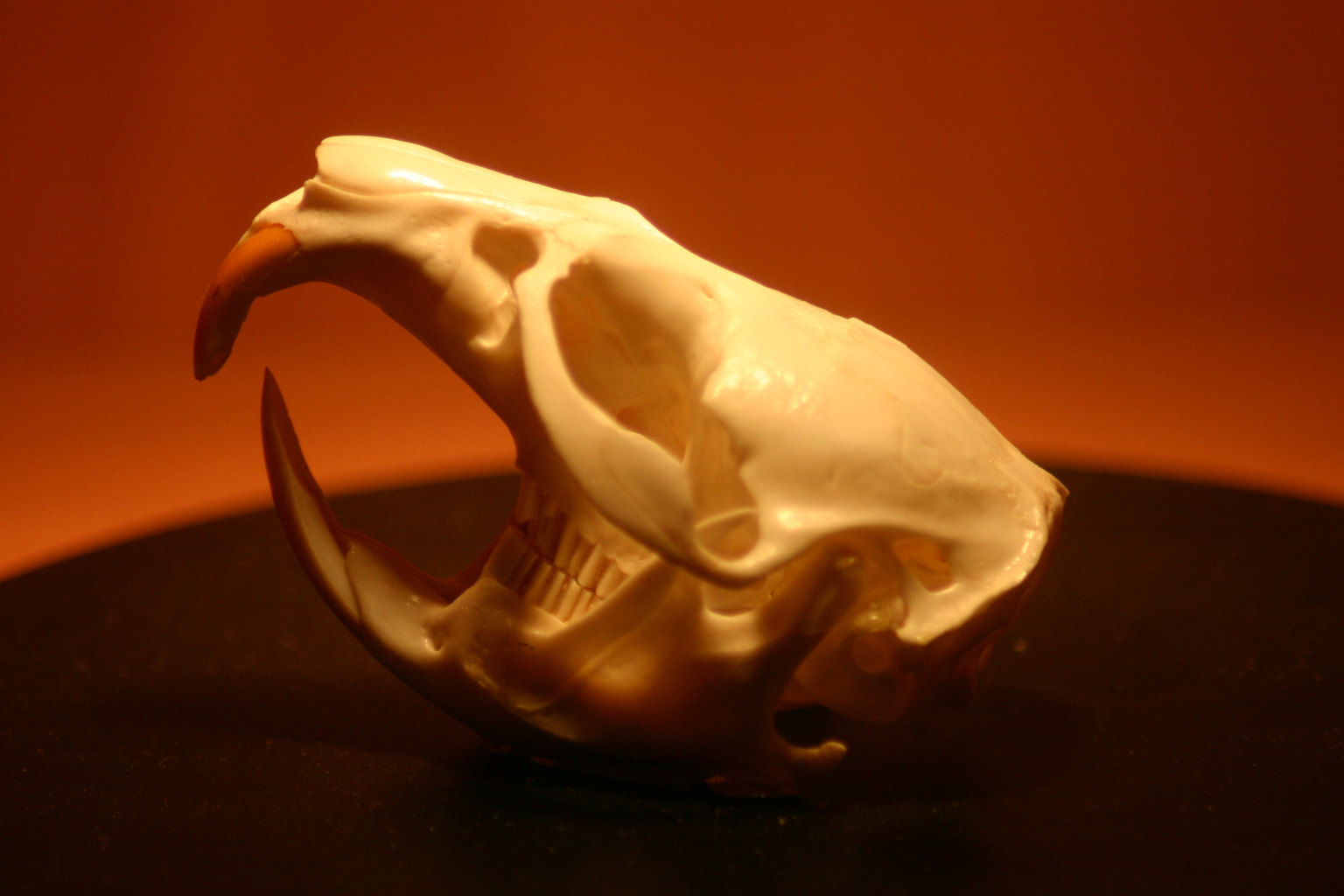 A muskrat skull from the Virginia Aquarium & Marine Science Center